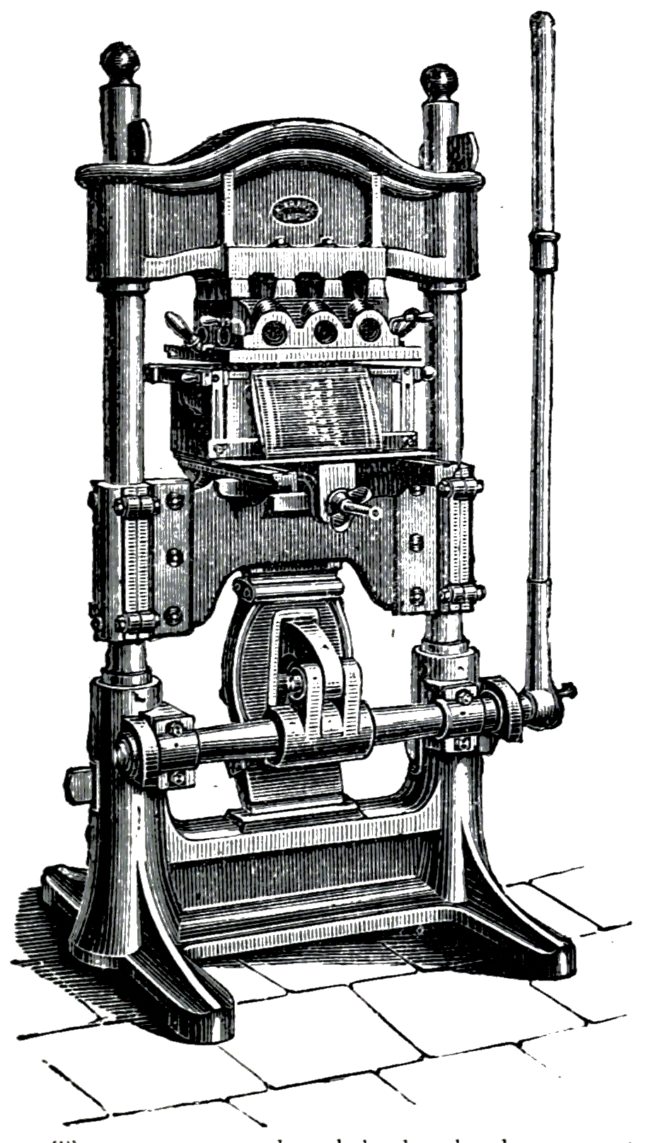 Illustration of "The Rock" Gold Blocking and Inking Press, no. 4, from an advert for Kampe & Co of 78 High Holborn, London as printed in The Art of Bookbinding by Joseph William Zaehnsdorf.